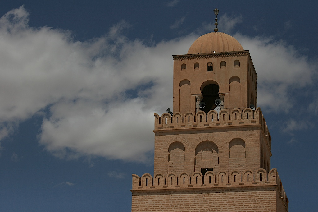 Minaret of the Great Mosque of Kairouan, Tunisia